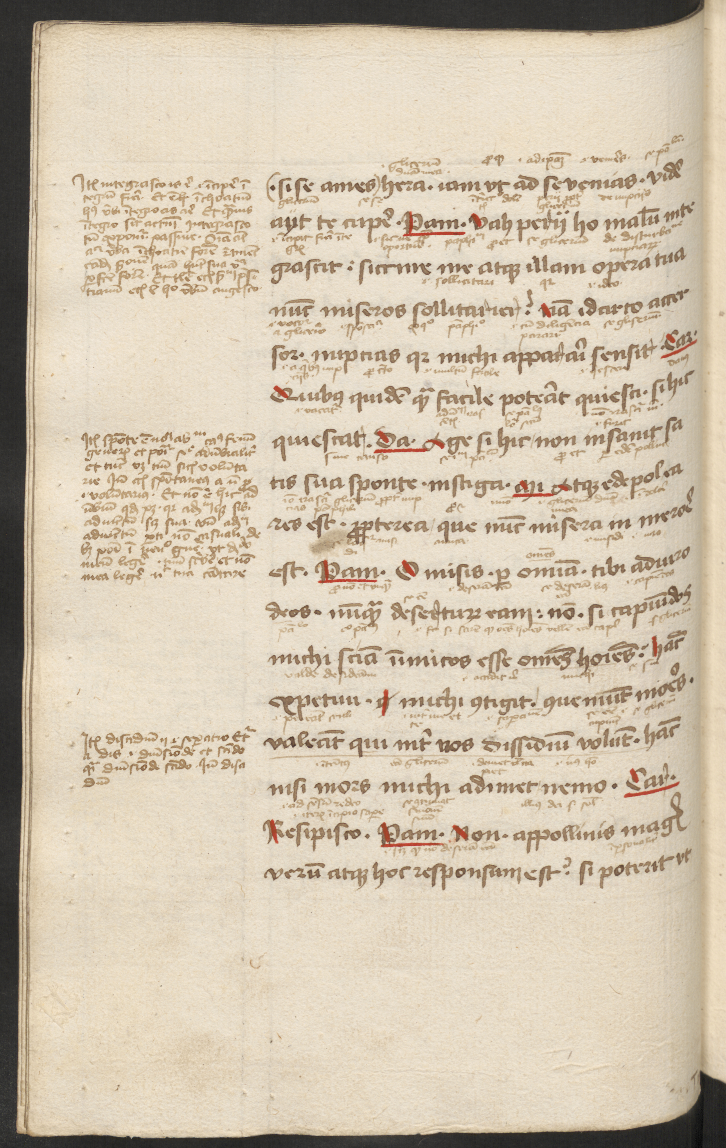 Ms.806, fol. 26v.